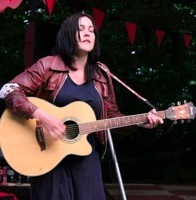 ottilia live